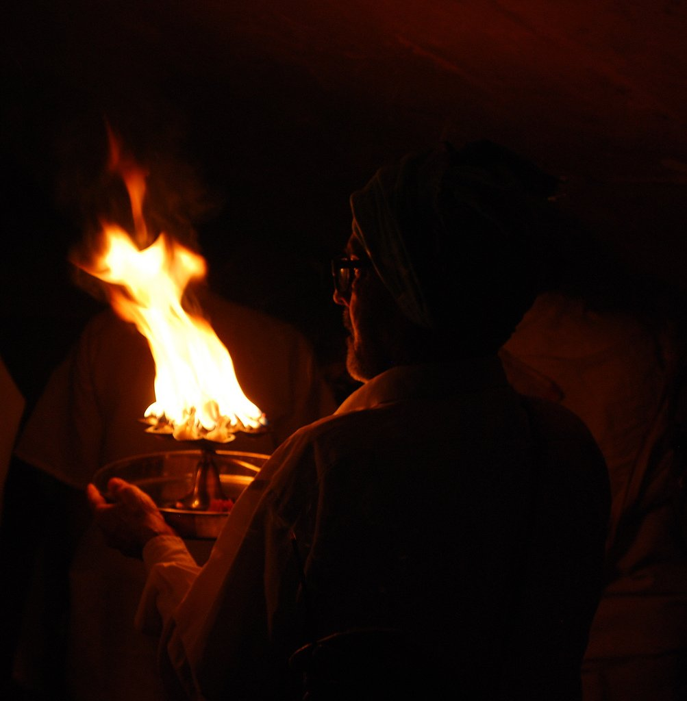 Aarti